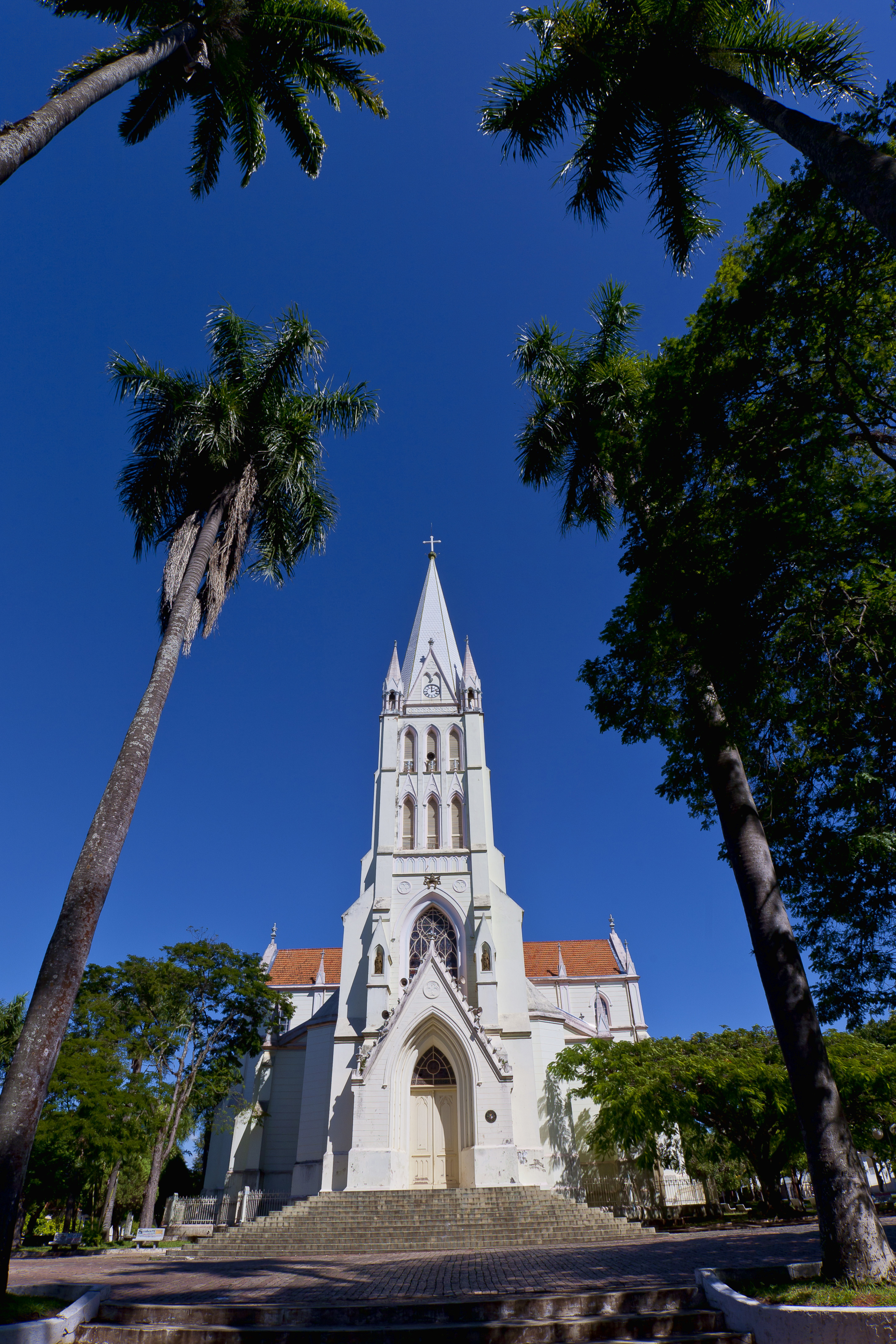 Main church in center of town, Mococa